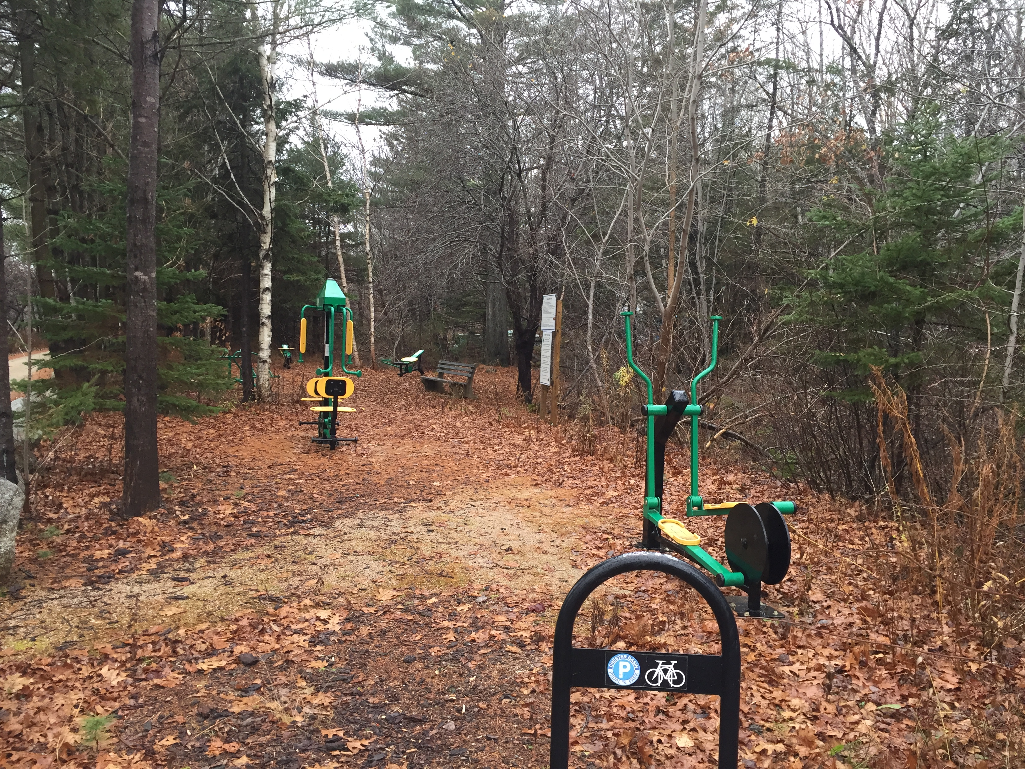 Green Gym in Chester Basin